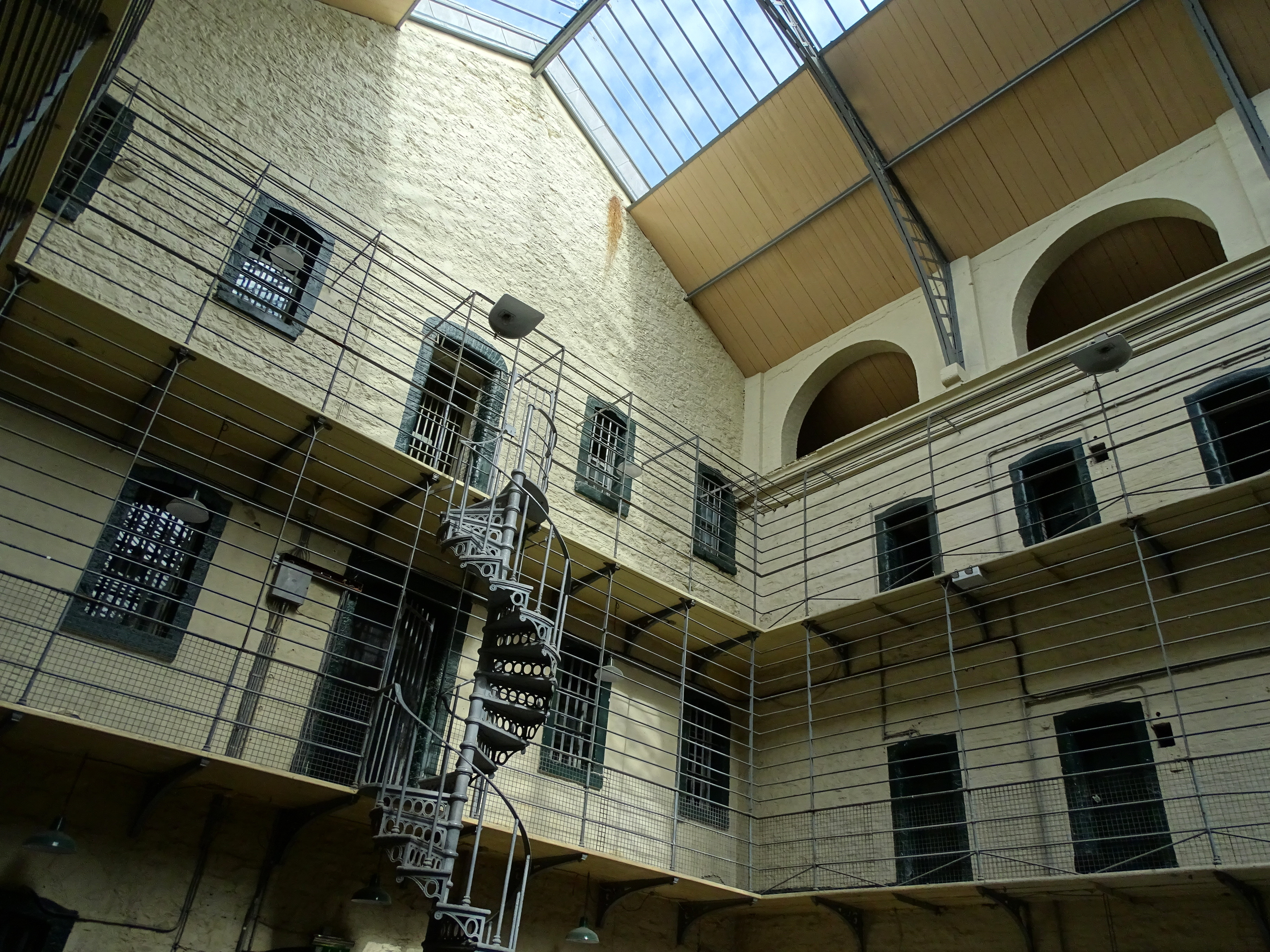 Detail of Interior of Kilmainham Gaol - Kilmainham - Dublin - Ireland - 03